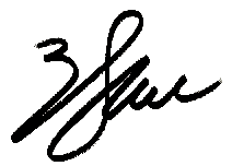 Signature of american actor Will Smith